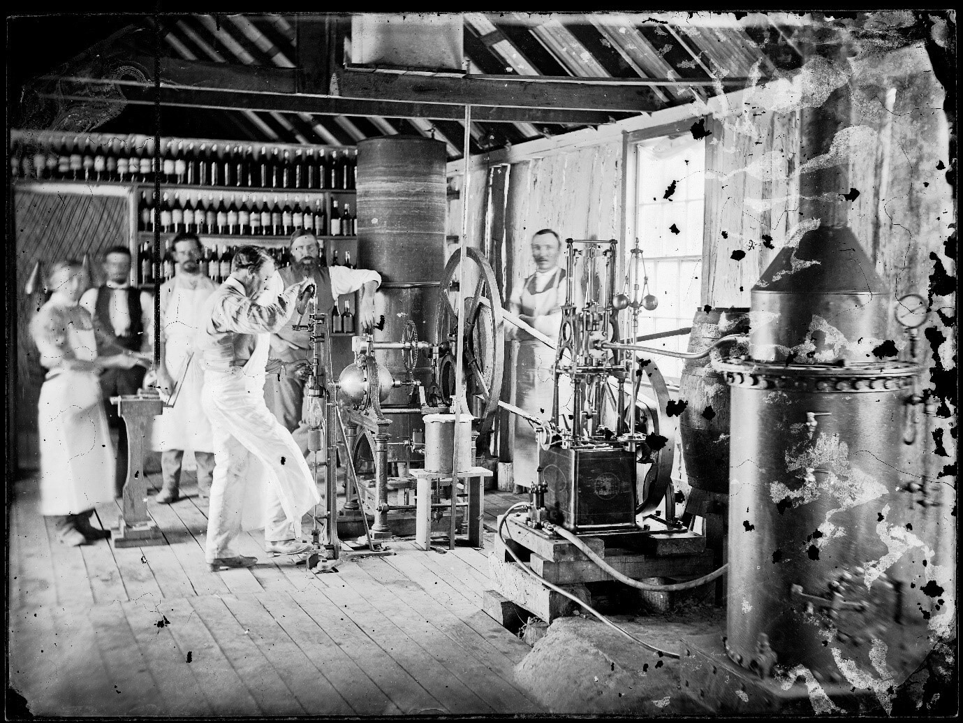 Interior, Weir & Embleton's cordial factory, Hill End, 1872, by American & Australasian Photographic Company, from glass photo negative, Presented by Mr Holtermann in 1952, State Library of New South Wales ON 4 Box 47 No. 57